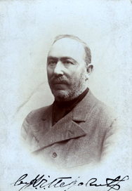 Vukašin Petrović